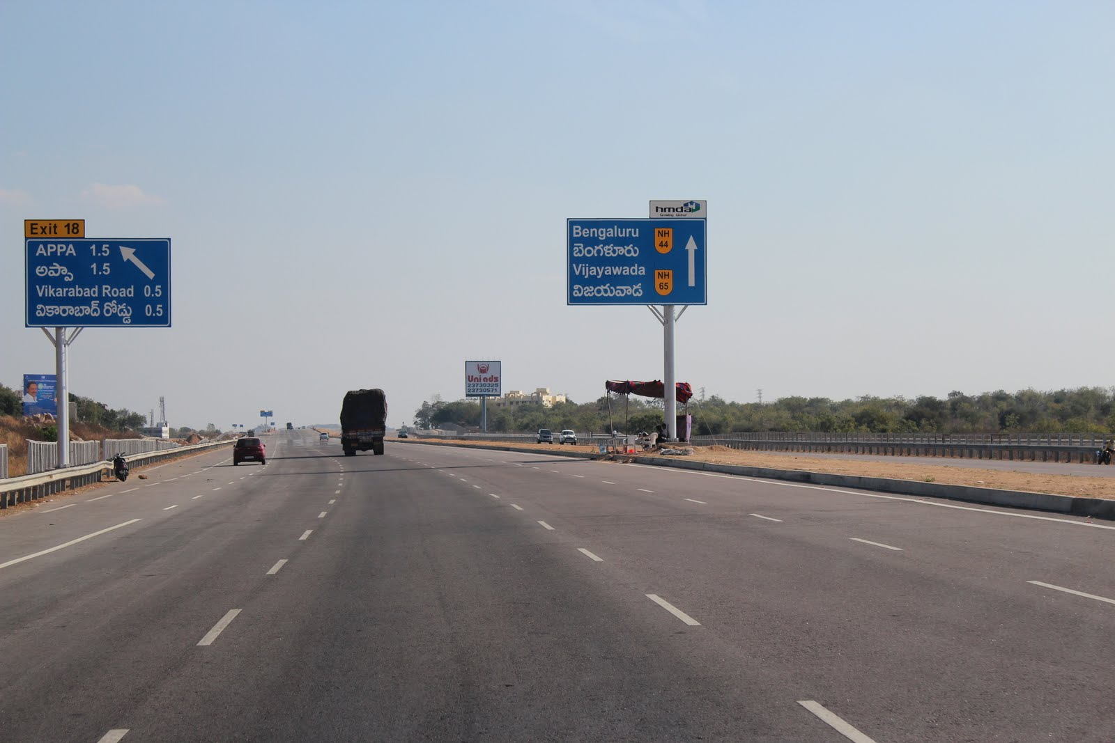 A glimpse of the Nehru ORR going from Gachibowli towards Shamshabad